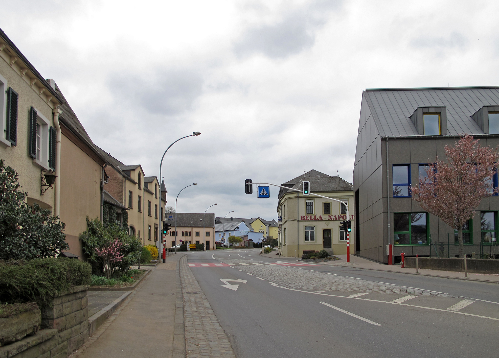 Route de Bastogne in Niederfeulen (N15)